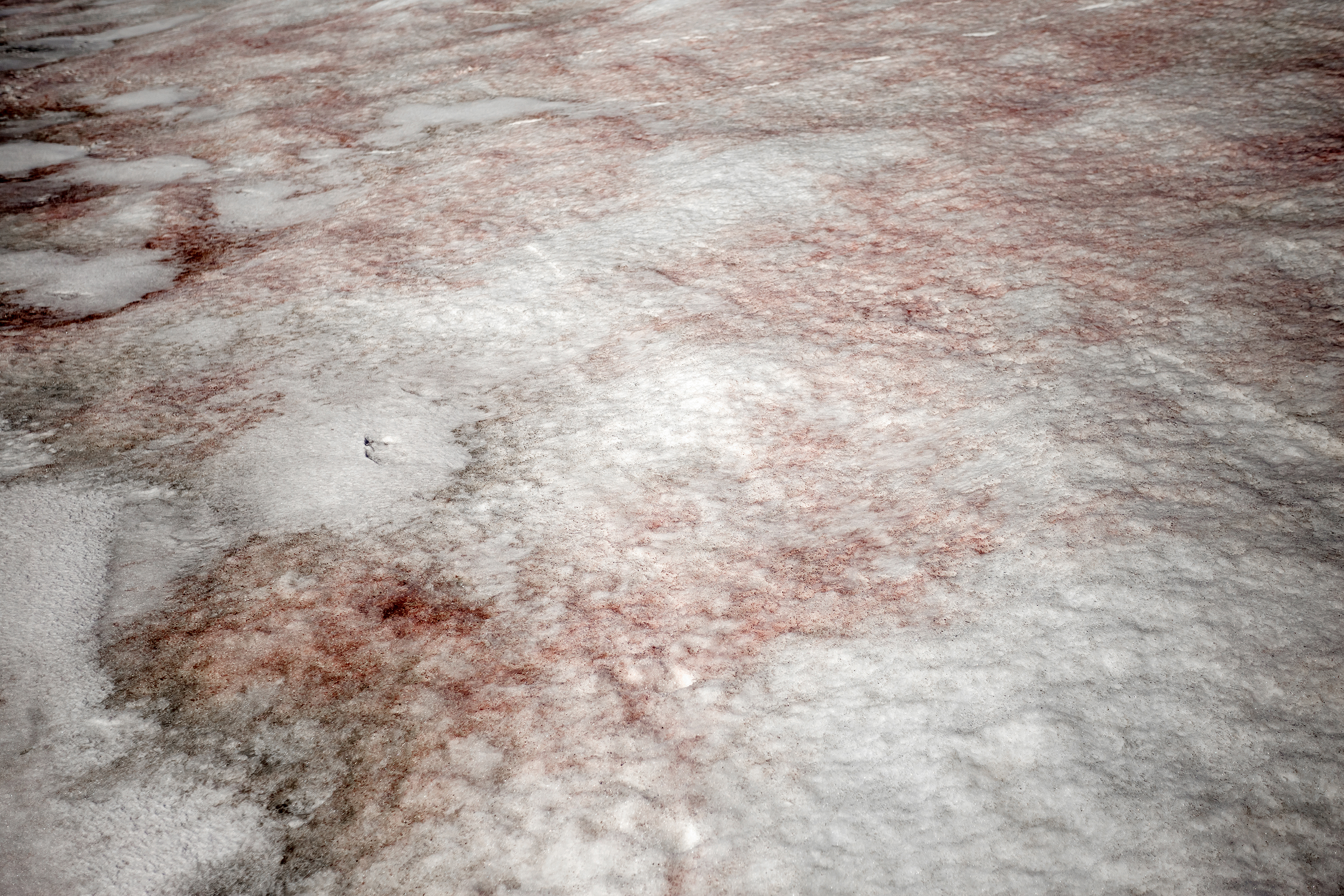 Watermelon snow (King George (Vaterloo, 25 May) Island, Antarctica)